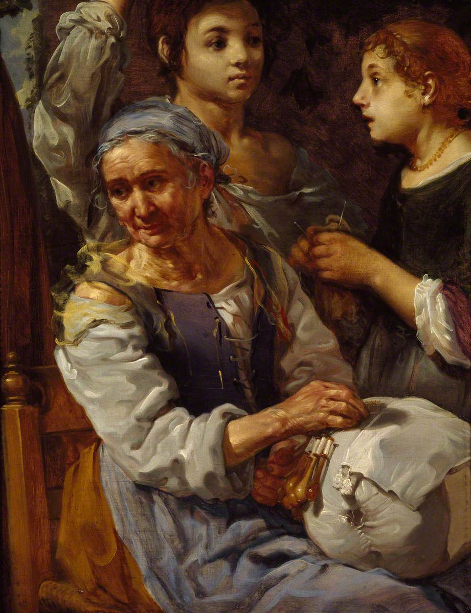 perhaps a fragment of a larger composition.